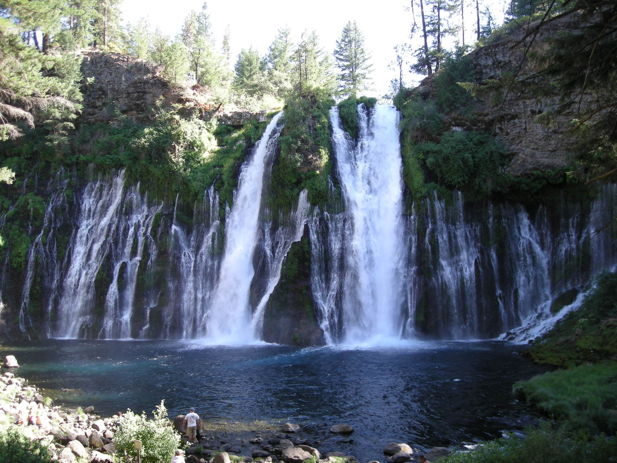 Burney Falls in McArthur-Burney Falls Memorial State Park, Shasta County, California.